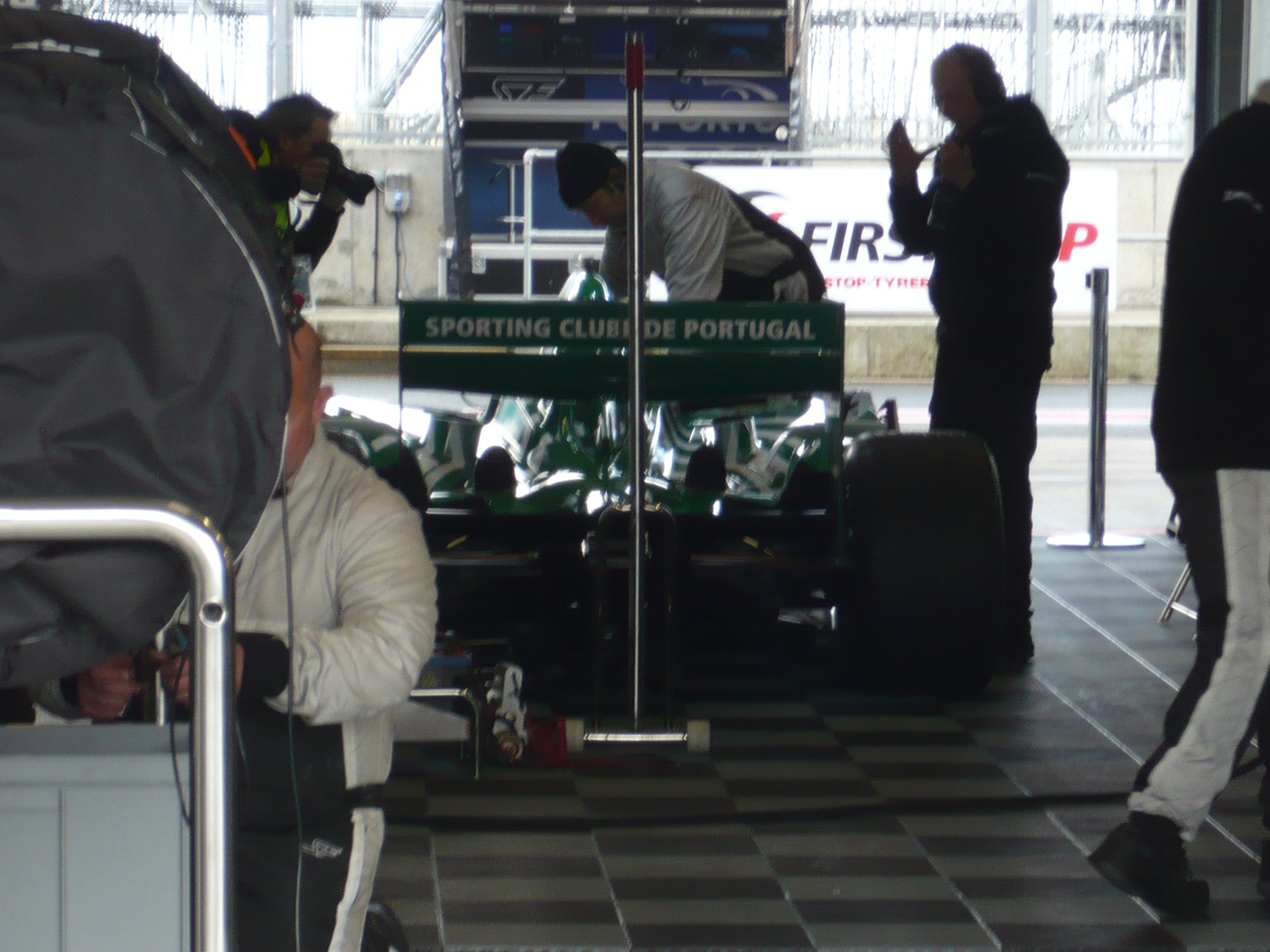 The Sporting CP Superleague Formula car. Photo taken by me at Silverstone Circuit during its 2010 SF round.